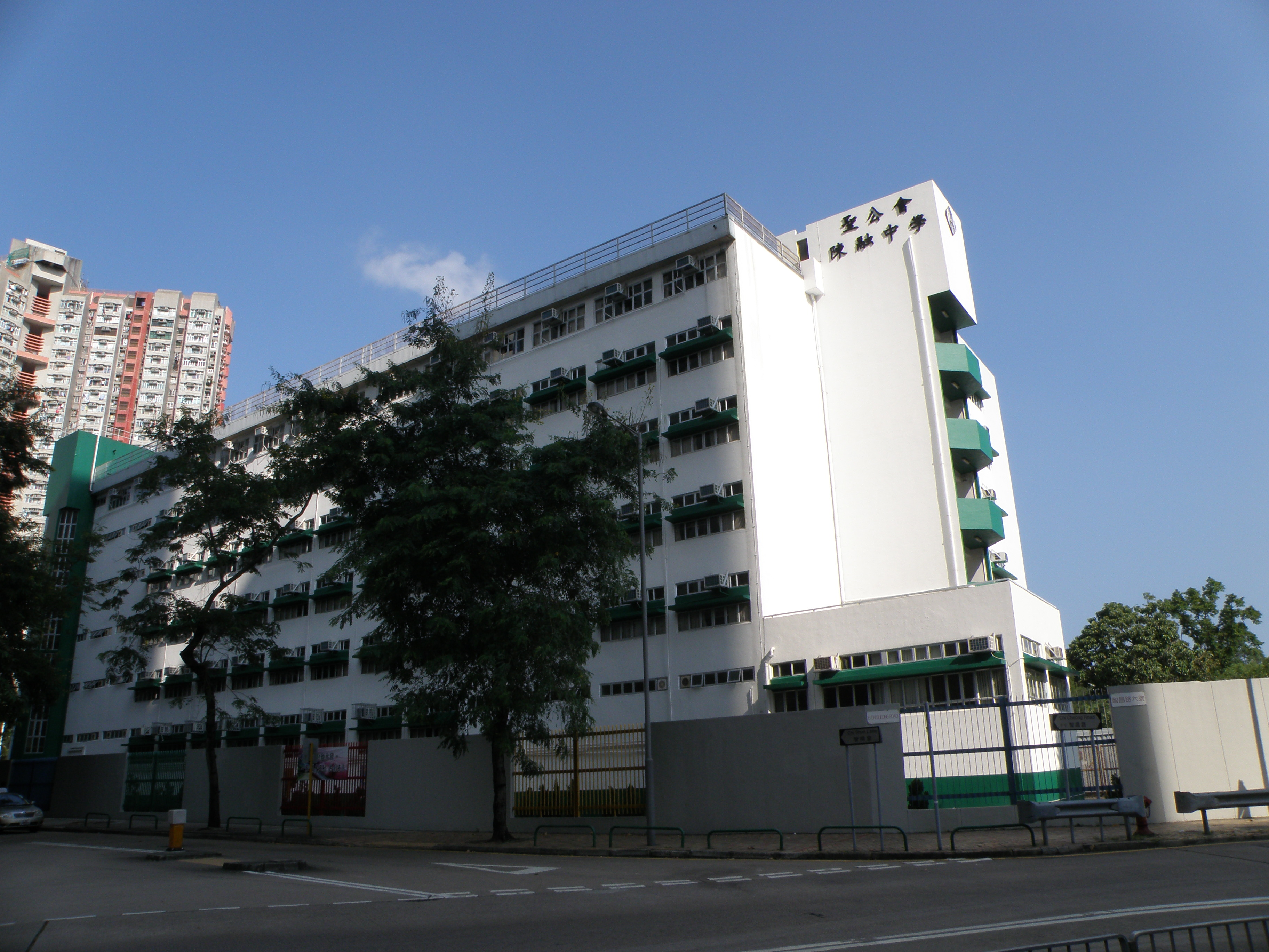 S.K.H. Chan Young Secondary School in Sheung Shui, Hong Kong.